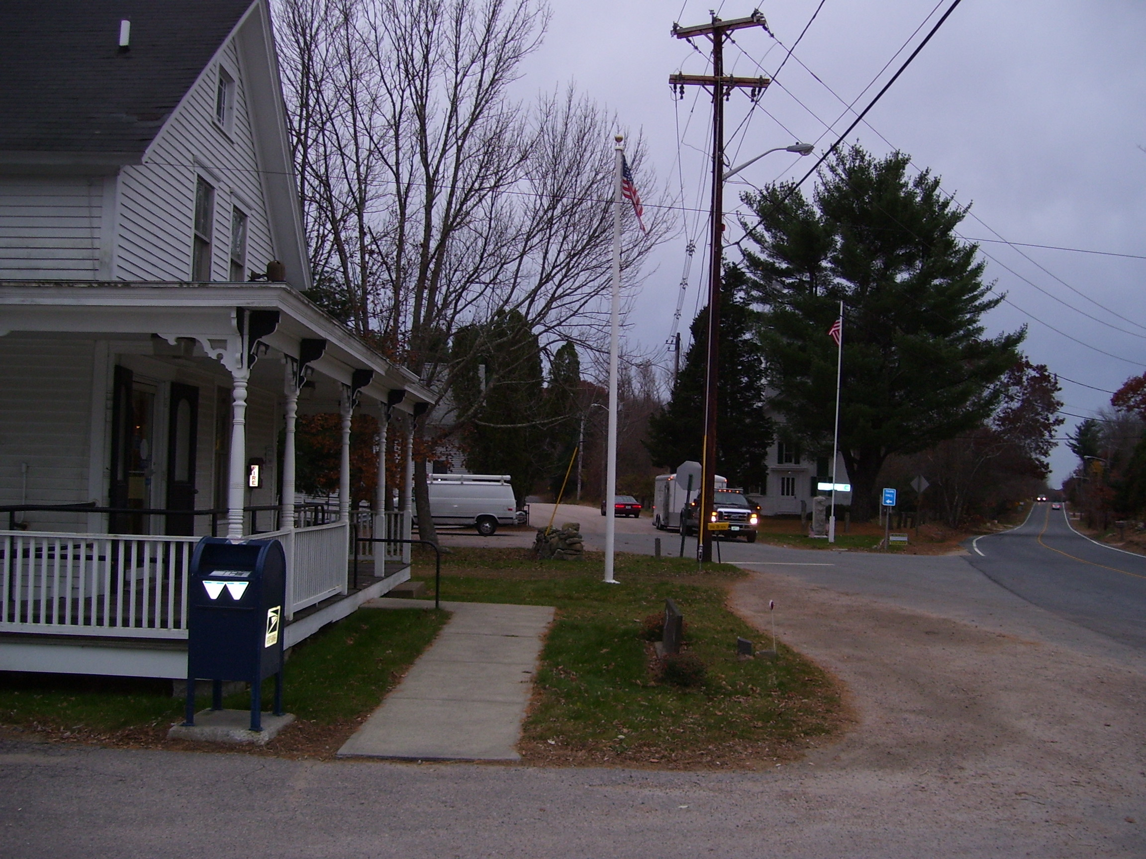 This is my 2008 photo of Hopkinton City Historic District in Ashaway, Rhode Island.